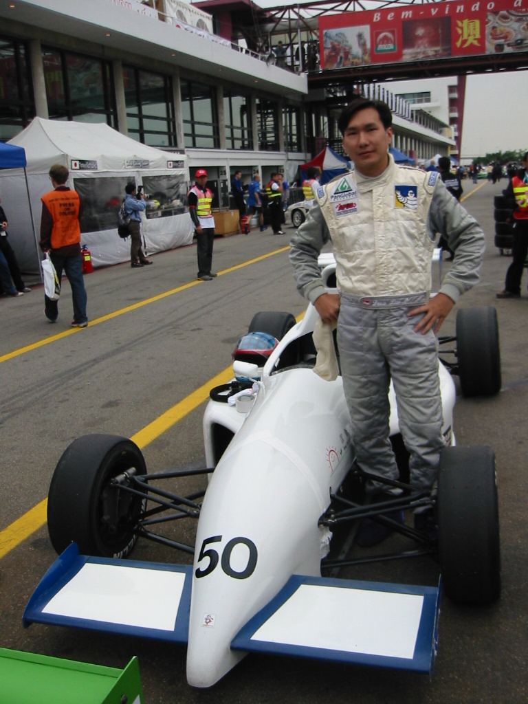 Denis Lian competing in the 2002 Formula Asia 2000 race at Macau 中文（香港）: 練建勝在2002年準備在澳門出戰亞洲方程式2000賽事。